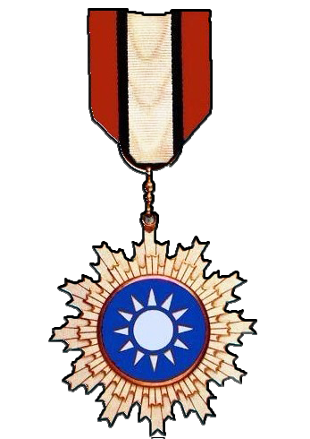 Order of the Blue sky and White Sun